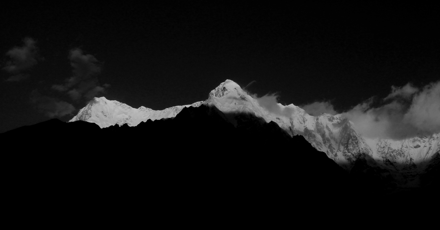 Nanga Parbat from south east. Main Summit on the left, Rakhiot Peak in the centre